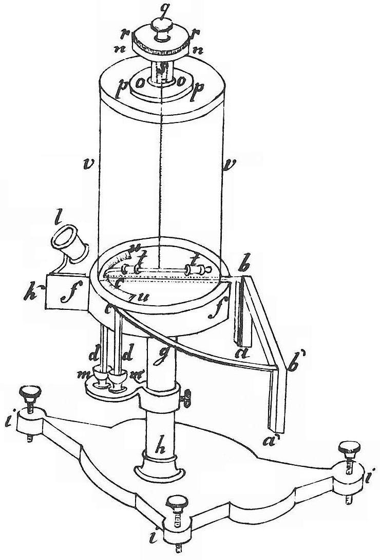 Ohm's torsion balance